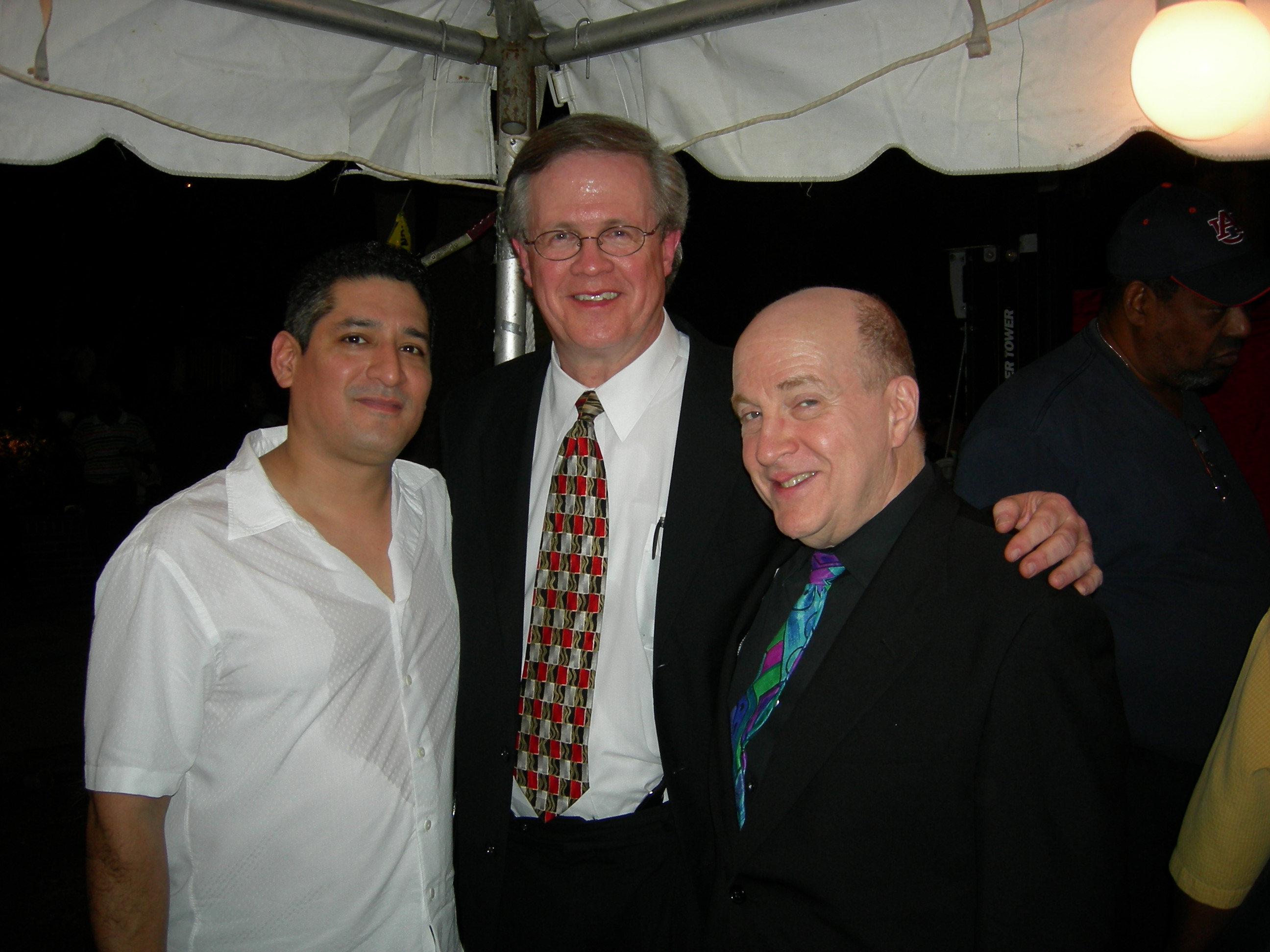 Left to Right: Steve Ramos, Ray Reach and Lew Soloff backstage at the Taste of 4th Avenue Jazz Festival, Birmingham, Alabama, September 27, 2008. Photo by Claudia Reach. Released into public domain by Allenstone. To be included in the Lew Soloff article.